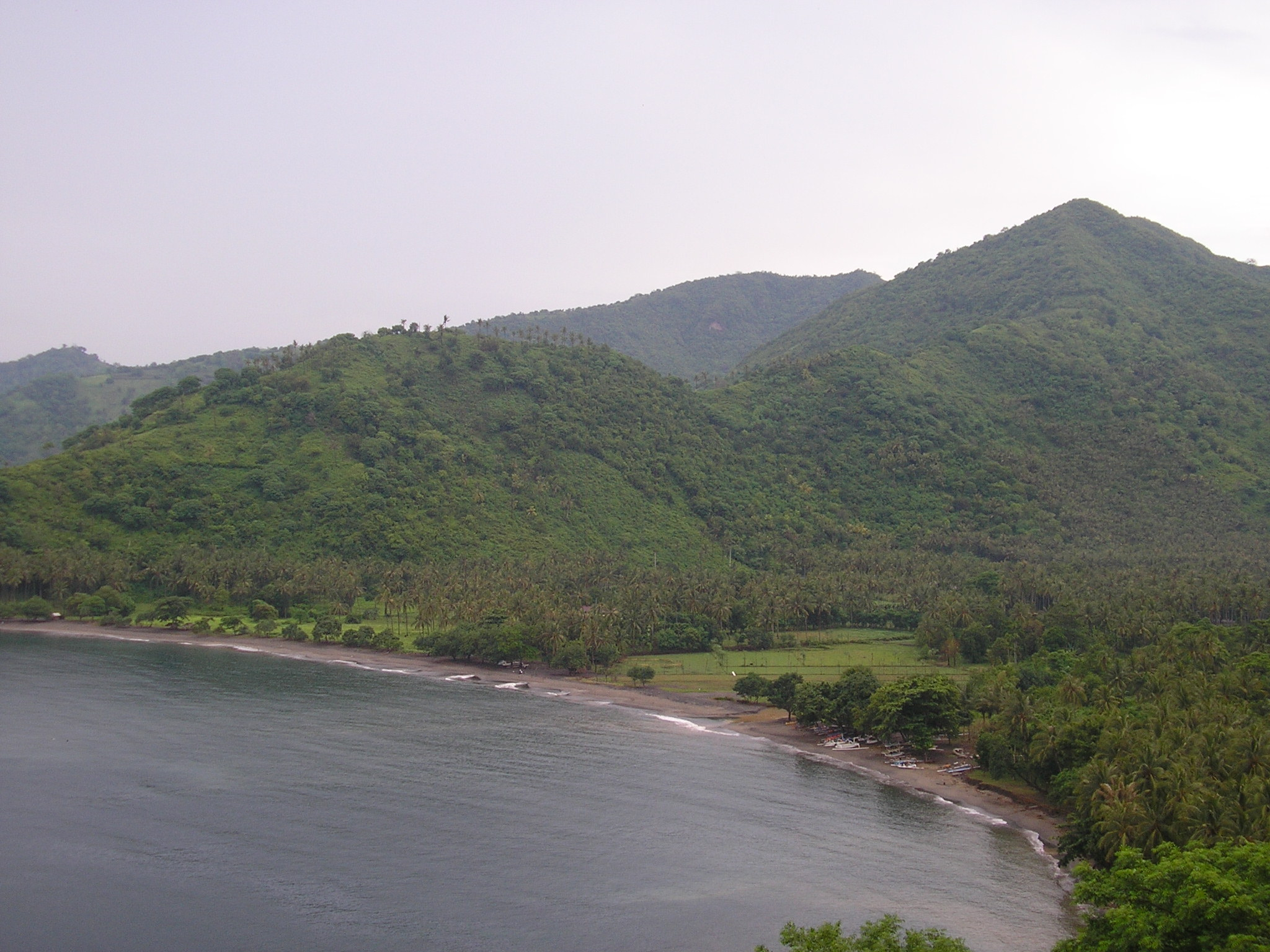 Senggigi Beach, Lombok Island, Indonesia